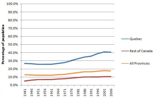 Chart showing rates of bilingualism in Canada, Quebec and the Rest of Canada 1941-2006.